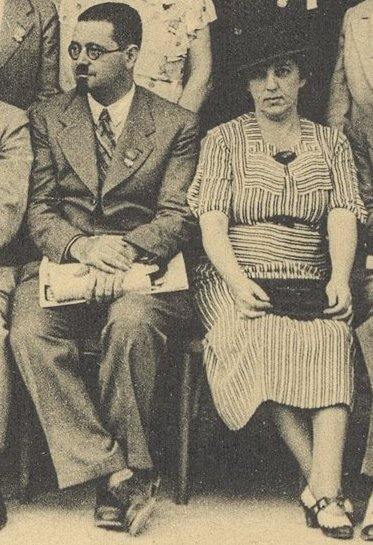 F. S. Bodenheimer and Mrs. Bodenheimer at the 6th International Congress of Entomology held at Madrid in 1935